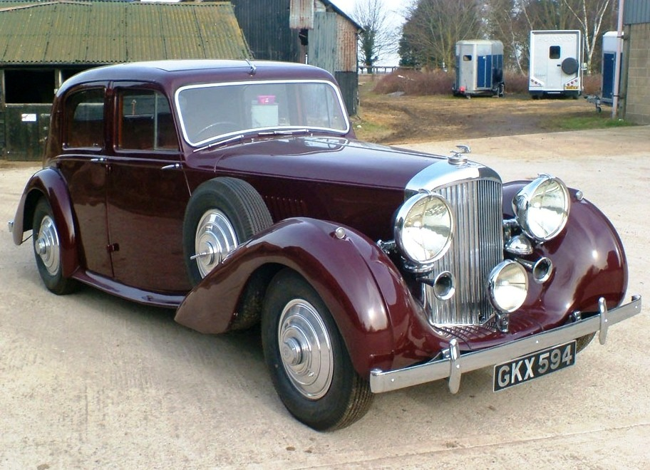 Bentley MK V